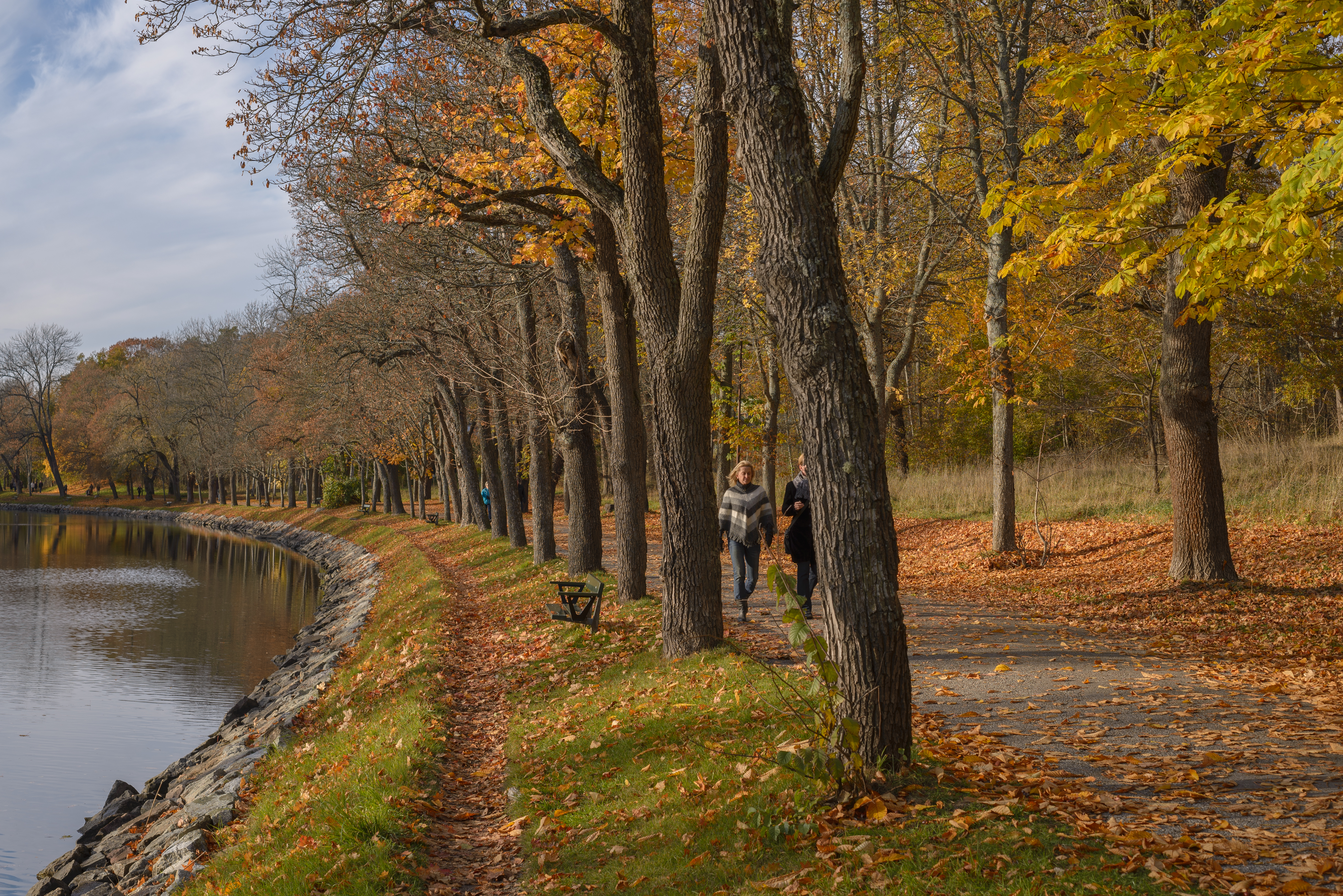 Djurgårdsbrunnskanalen.